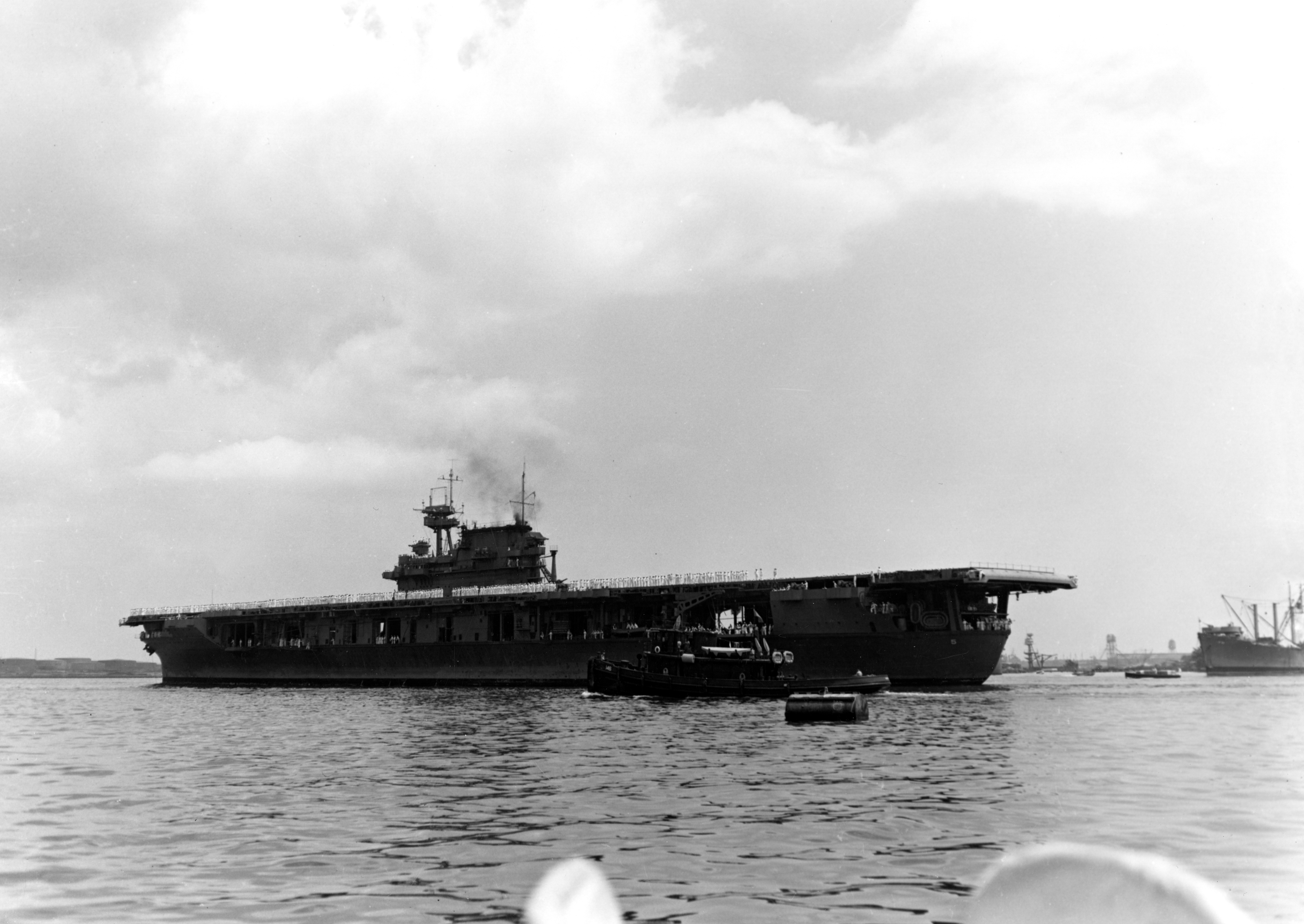 The U.S. Navy aircraft carrier USS Yorktown (CV-5) arrives at Pearl Harbor after the Battle of Coral Sea on 27 May 1942, with her crew paraded in whites on the flight deck. After hasty repairs, she departed on 30 May to take part in the Battle of Midway. The tug USS Hoga (YT-146) is in the center foreground. The mainmast of the sunken battleship USS Arizona (BB-39) is visible in the distance, just right of Yorktown´s stern. The carrier is wearing the standard Camouflage Measure 12.